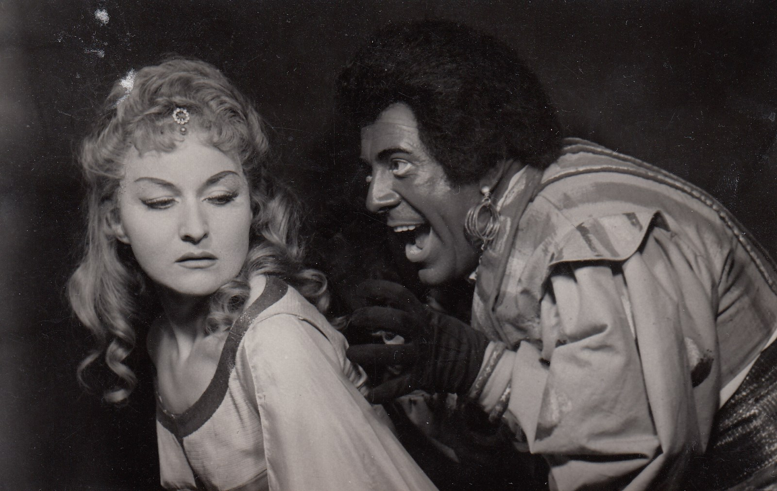 Berdál Vali és Mucsi Sándor a Varázsfuvola 1960-as előadásában